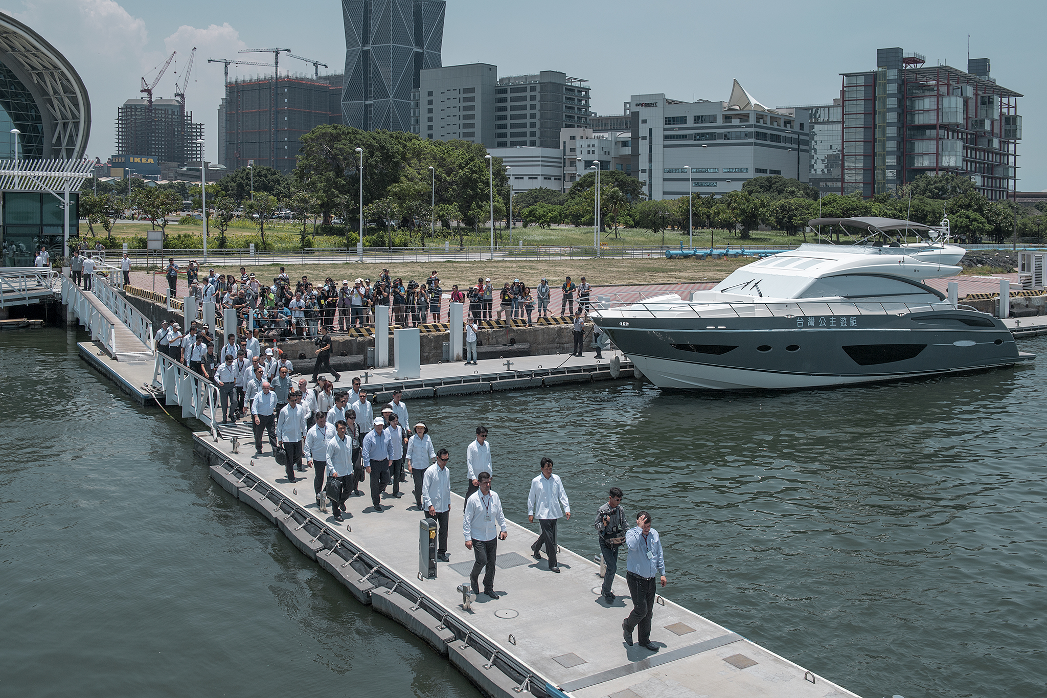 授權方式及範圍：中華民國總統府│政府網站資料開放宣告 Authorization Method & Scope: Office of the President, Republic of China (Taiwan) | Government Website Open Information Announcement